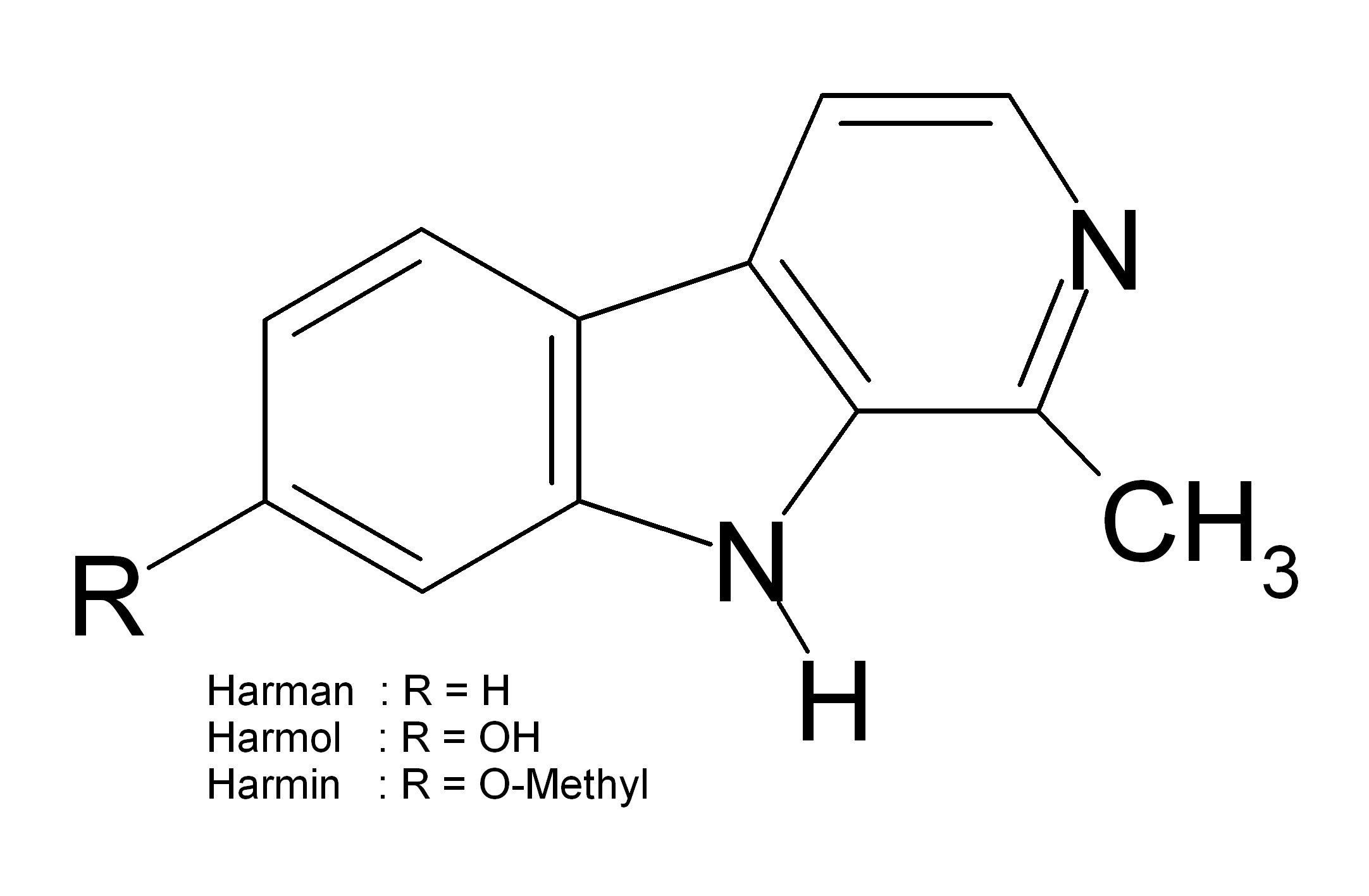 Structure of Harmane und Harmine